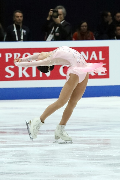 Photos – World Championships 2018 – Ladies (Satoko MIYAHARA JPN – Bronze Medal)